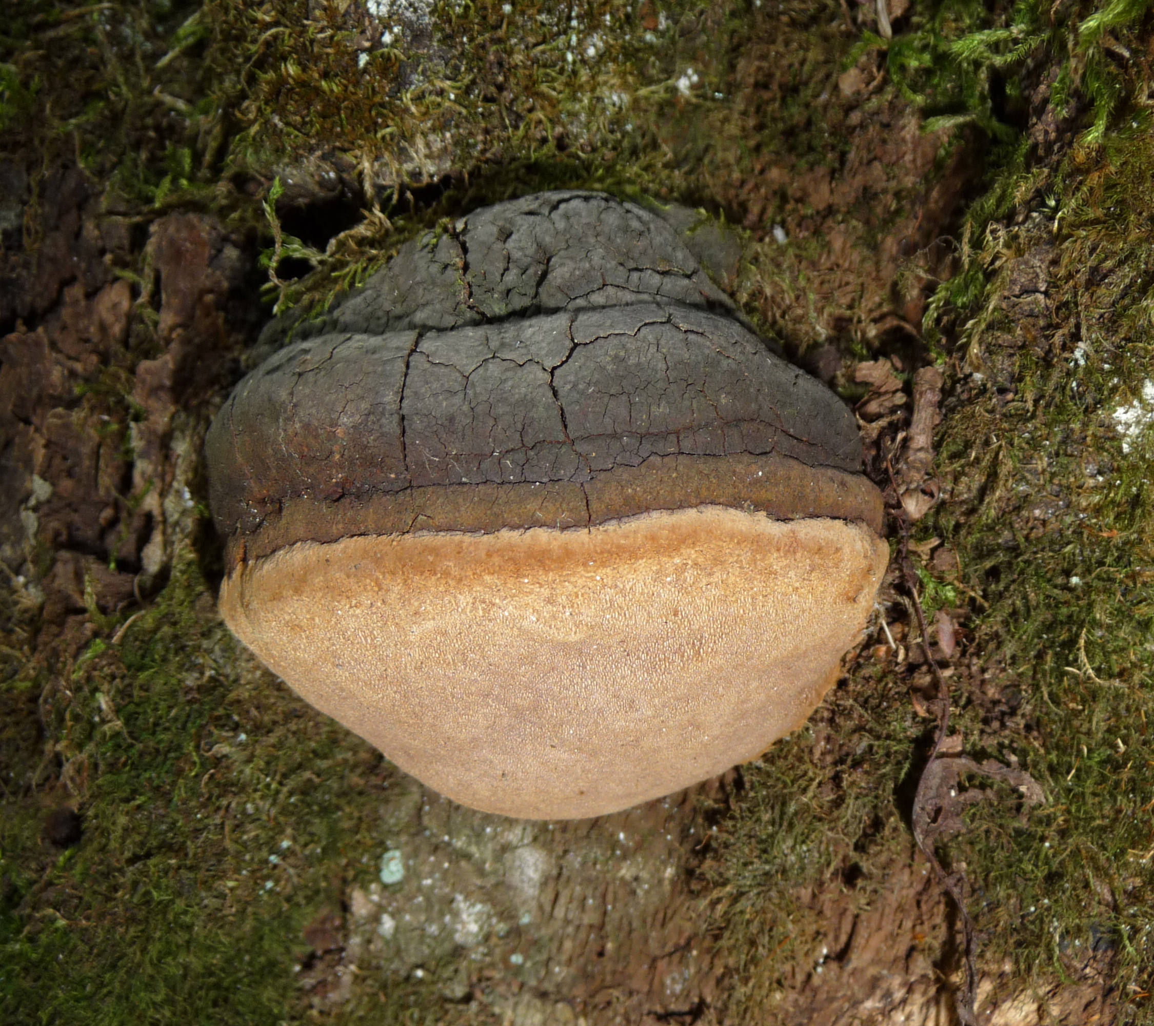 Phellinus igniarius on a dead Oak Quercus robur.